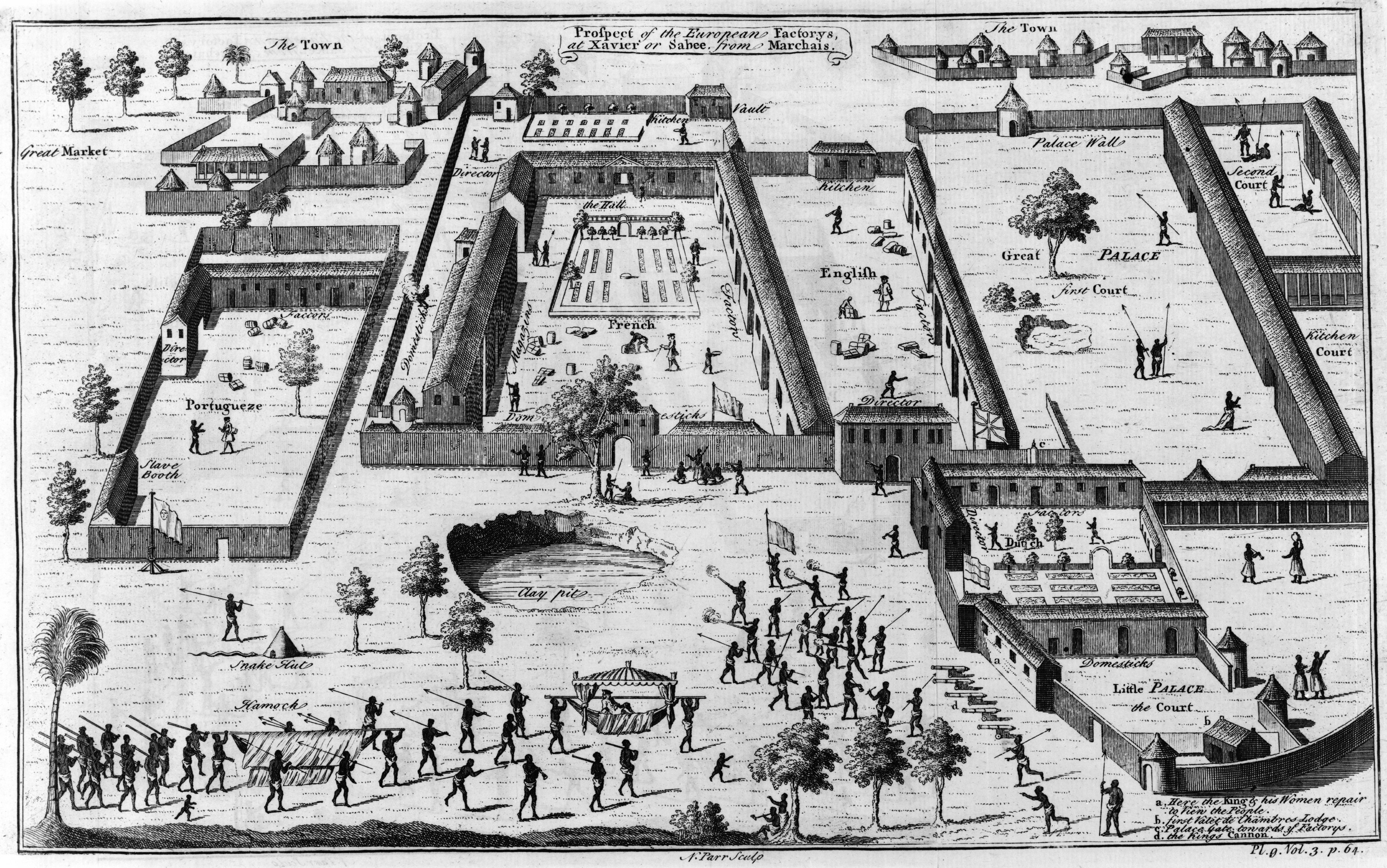 Title: Slave factories, or compounds, maintained by traders from four European nations on the Gulf of Guinea in what is now Nigeria] / N. Parr, sculp Abstract/medium: 1 engraving.